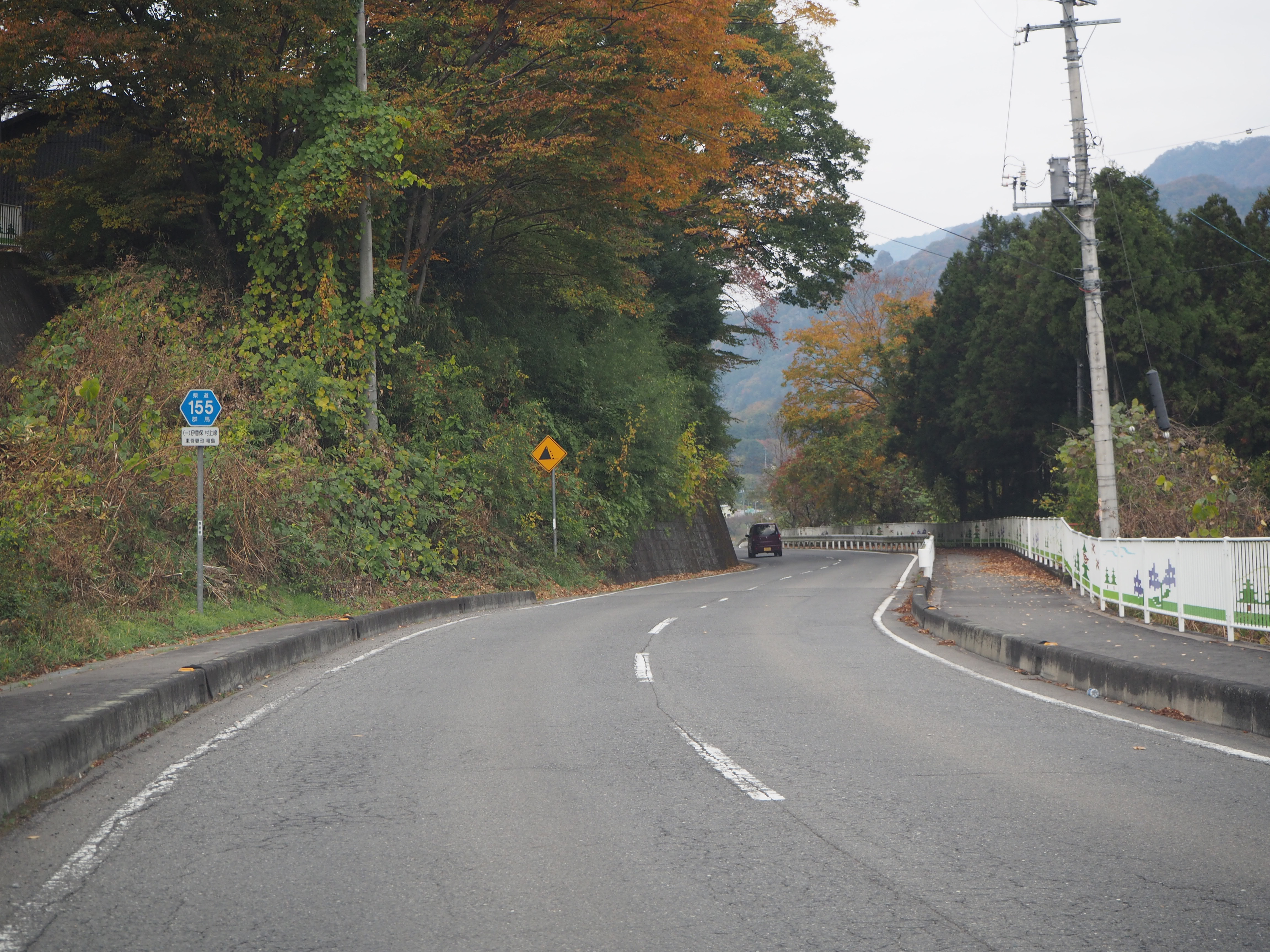 Gunma prefectural road Route 155